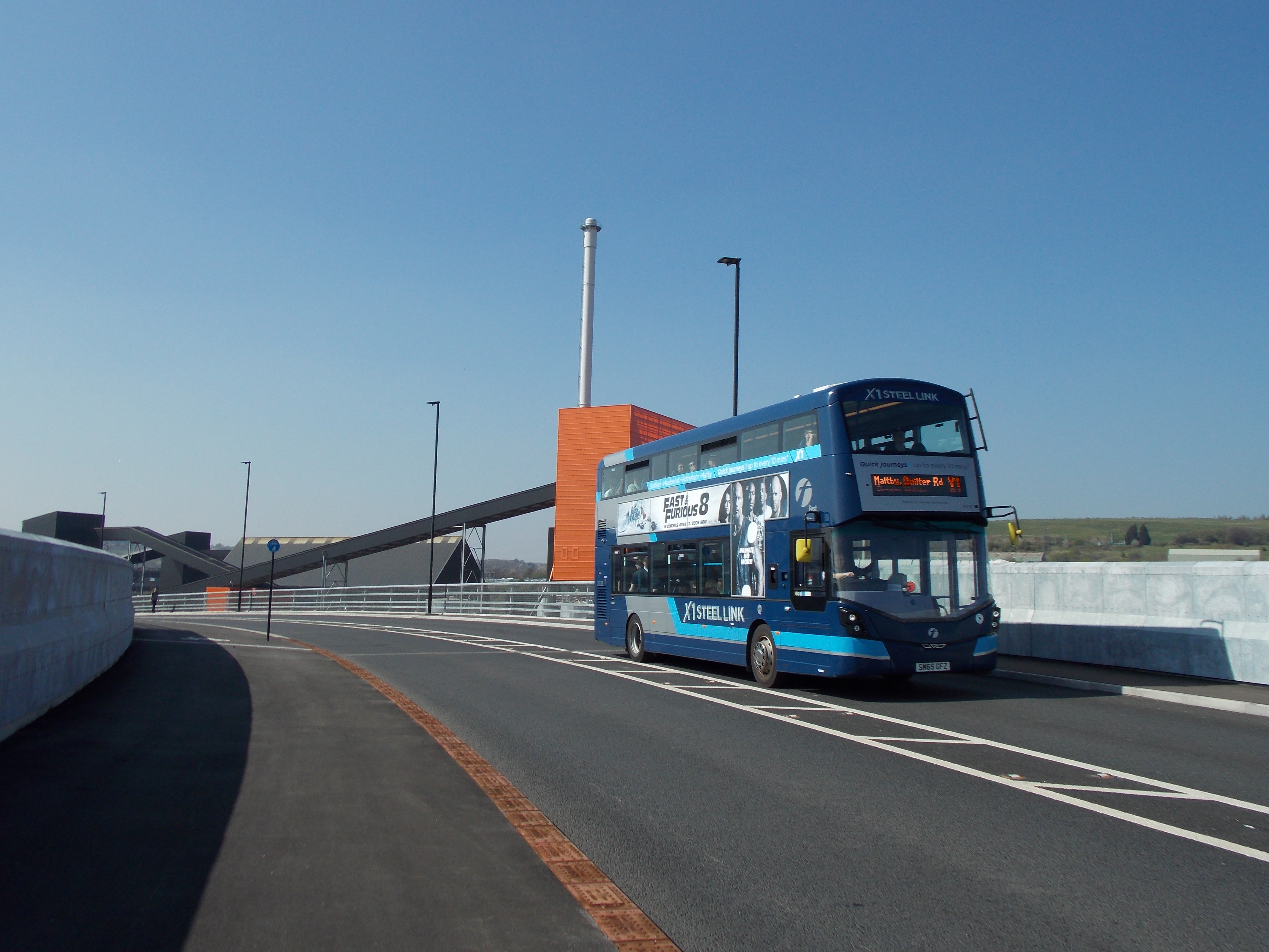 First South Yorkshire X1 Steel Link-branded Wright StreetDeck Stealth SM65GFZ (35129) traverses the newly-constructed Blackburn Meadows Way as part of the Bus Rapid Transit North project, 8 April 2017. The new Blackburn Meadows biomass power station is in the background.